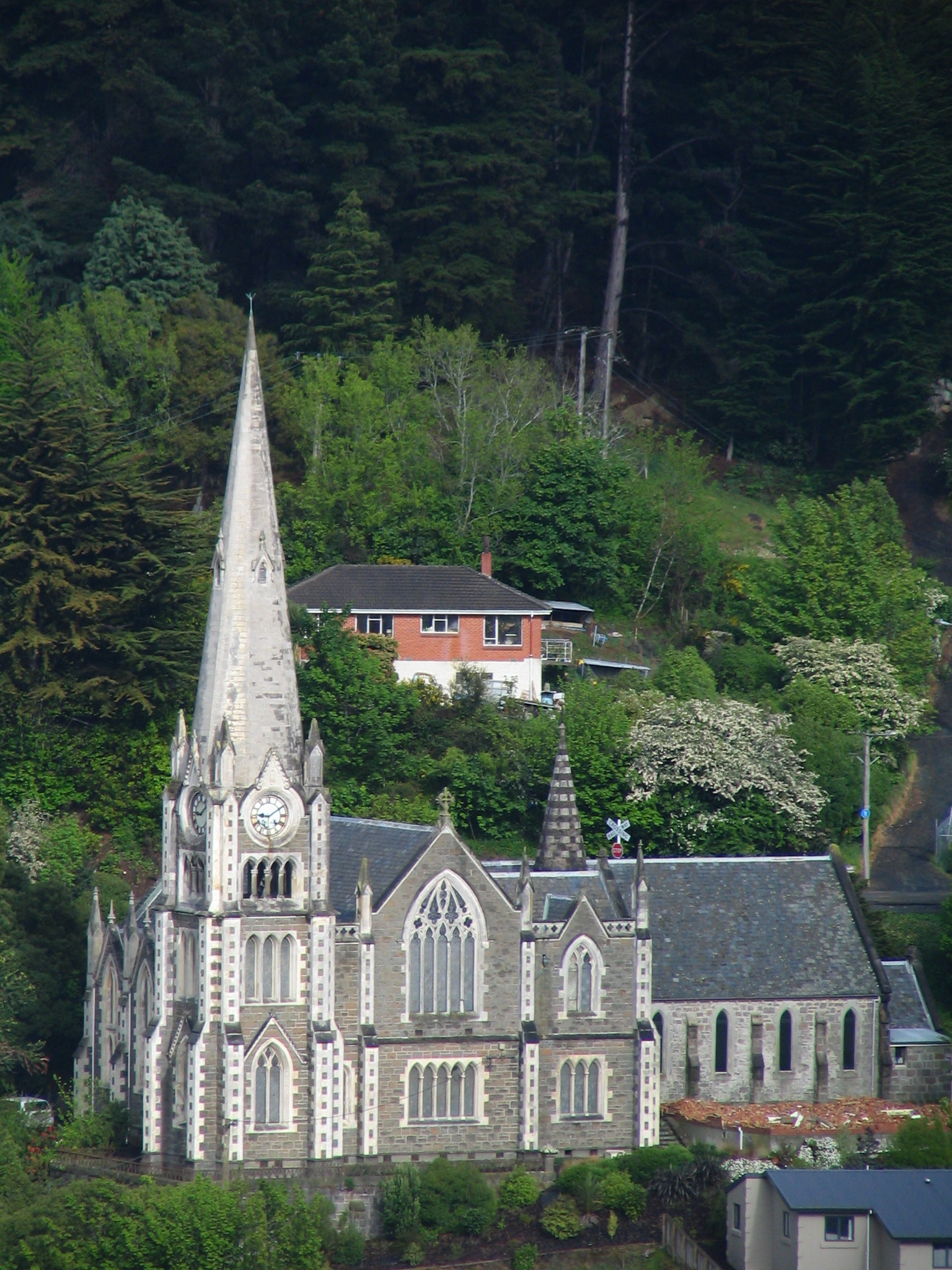 Iona Church (Presbyterian), Port Chalmers, New Zealand.